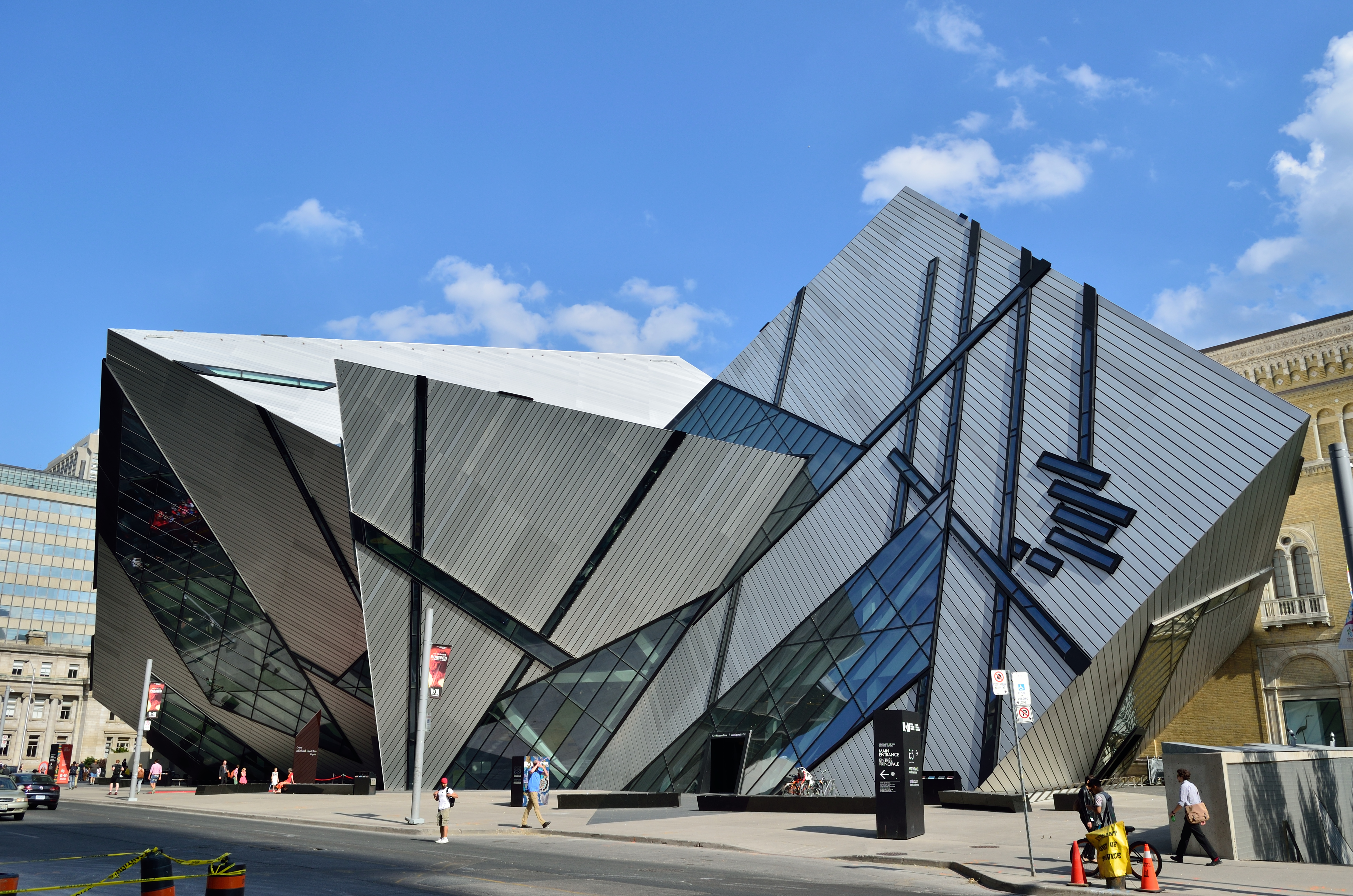 Michael Lee-Chin Crystal of Royal Ontario Museum in Toronto